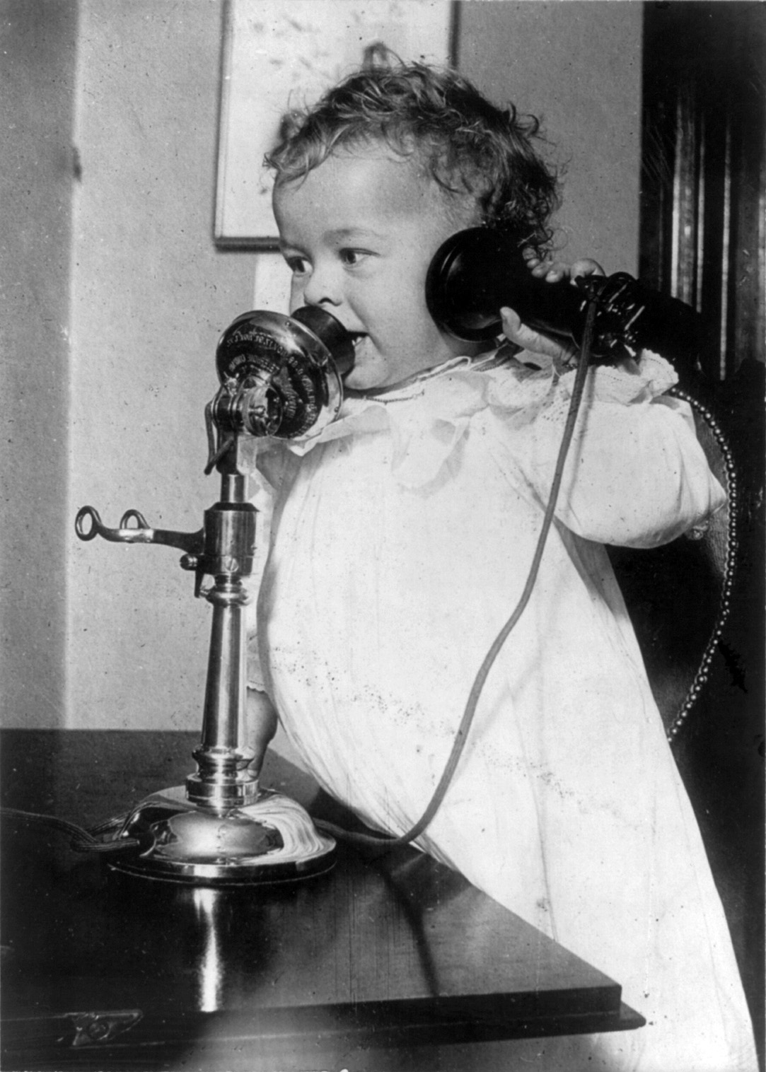 A small child using a telephone (unable to determine if this is a boy or girl, because babies/toddlers were all dressed in the same way during this time period).